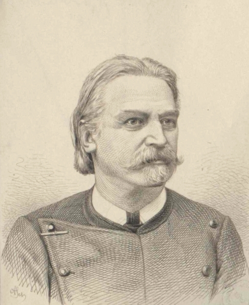 Theodor Georgii (1826–1892)